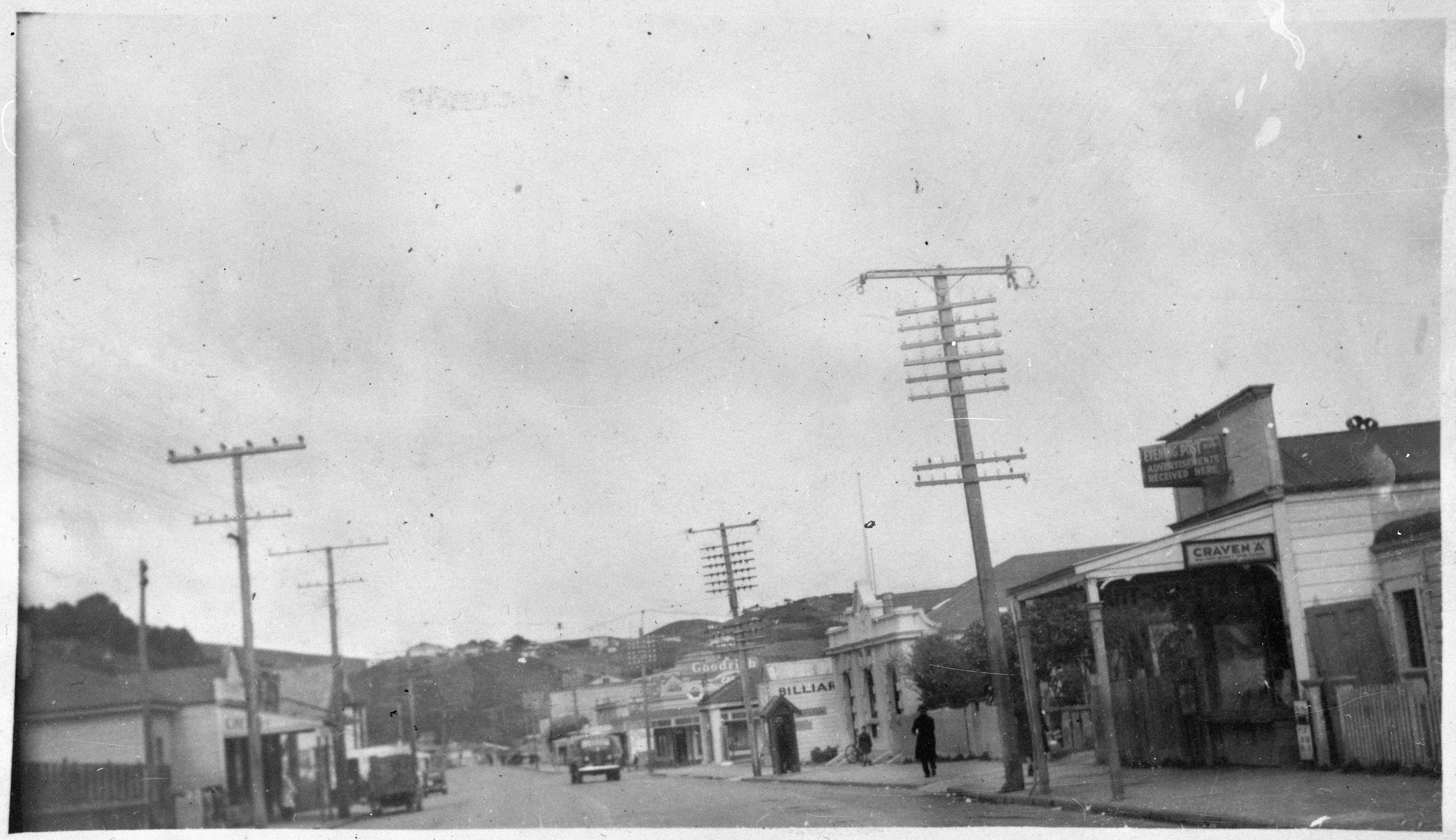 A street in Johnsonville, in 1943, taken by Albert Percy Godber. The shop on the right advertises cigarettes `Craven A', and the Evening Post.